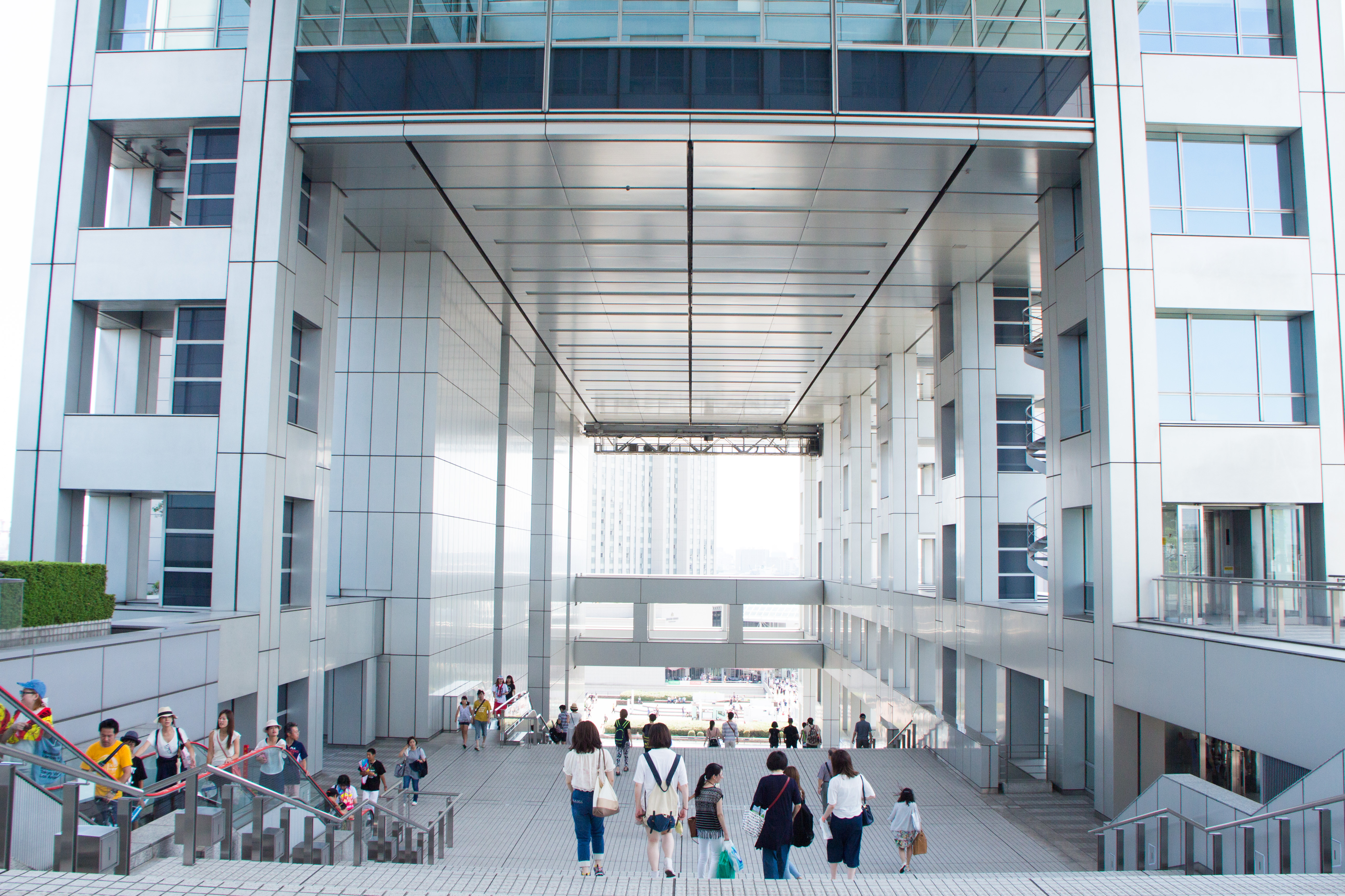 Grand staircase of Fuji TV headquarters building in Japan.